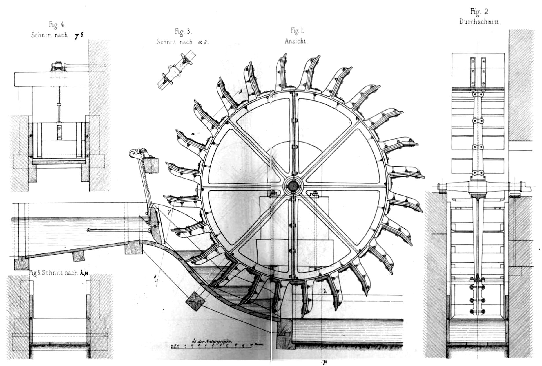 Theorie und Bau der Wasserräder, plate II